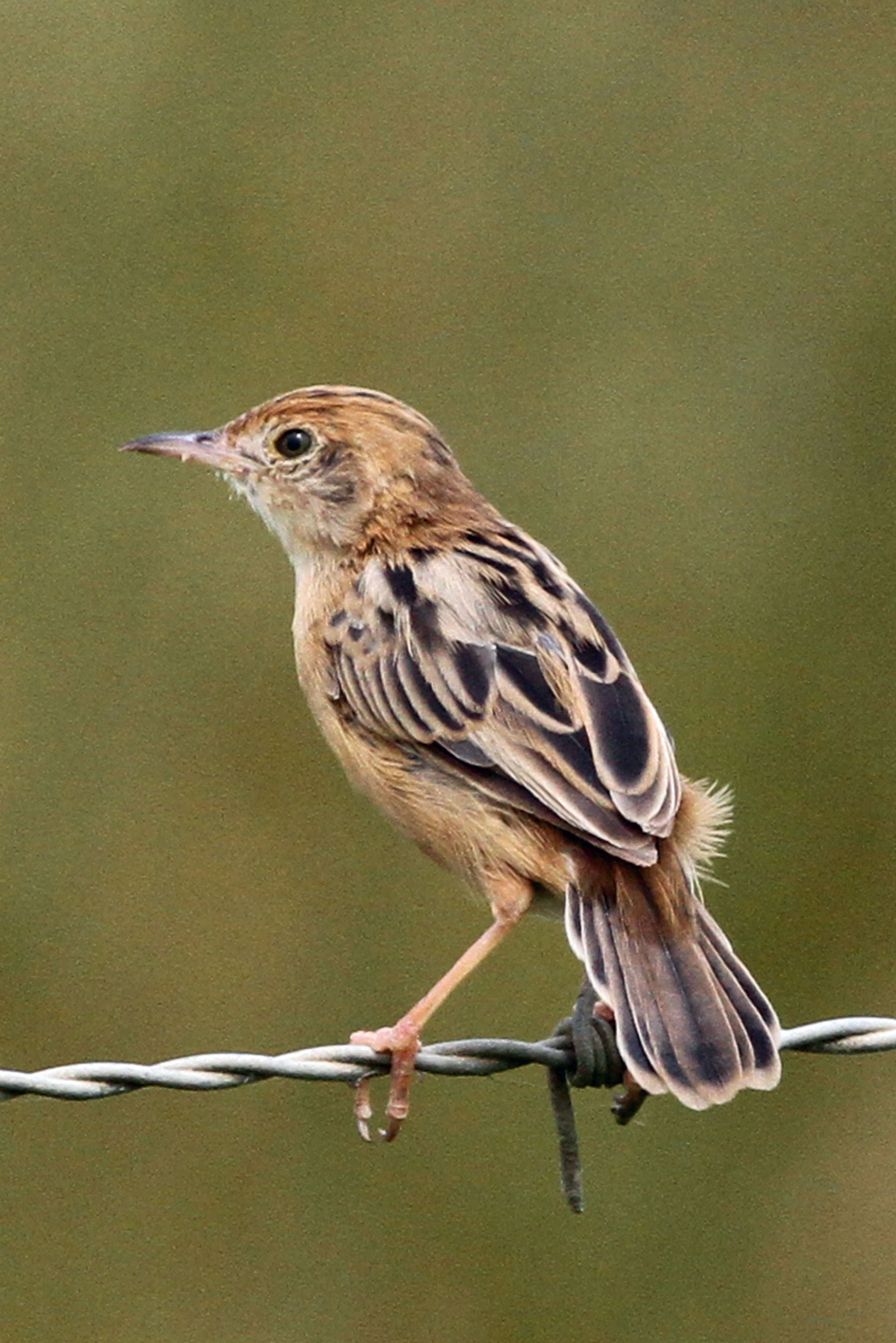 A Golden-headed Cisticola in Daintree, Queensland, Australia.